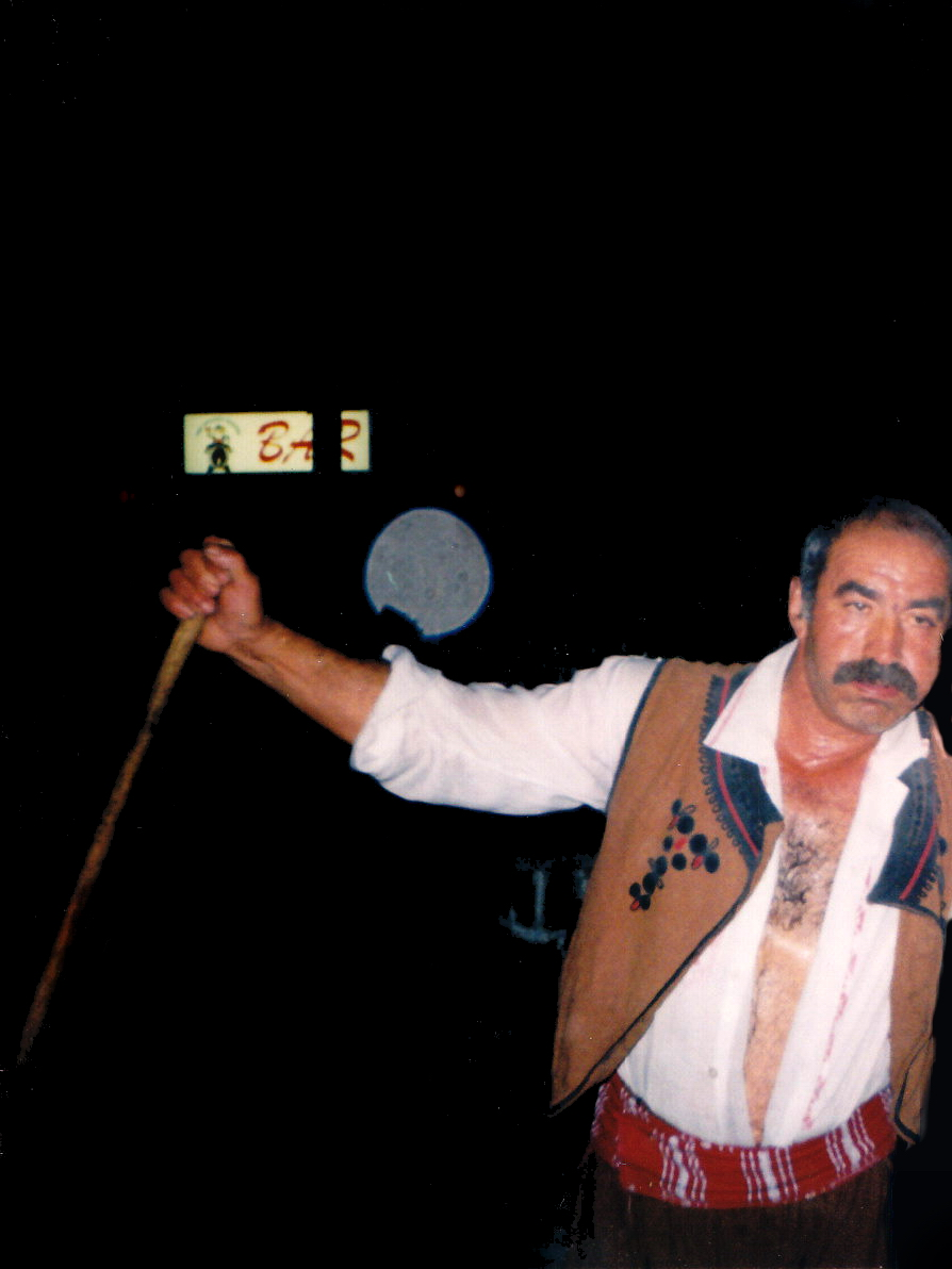 Nestinar in Nessebar, Bulgaria